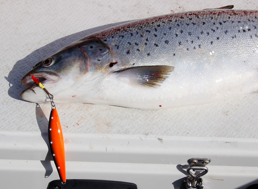 Red/black "No Name"